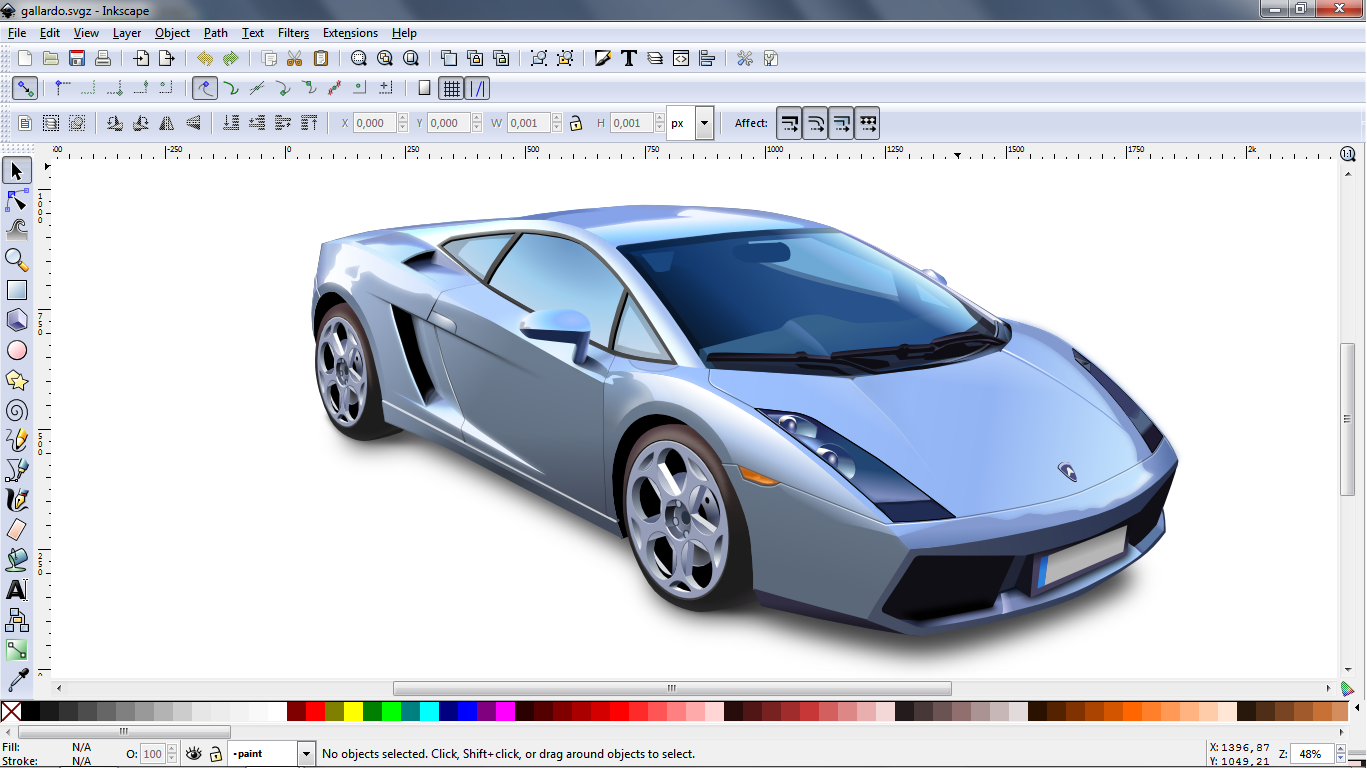 Widescreen screenshot of Inkscape 0.47 Windows 7 with an example image displaying a Lamborghini Gallardo by Michael Grosberg